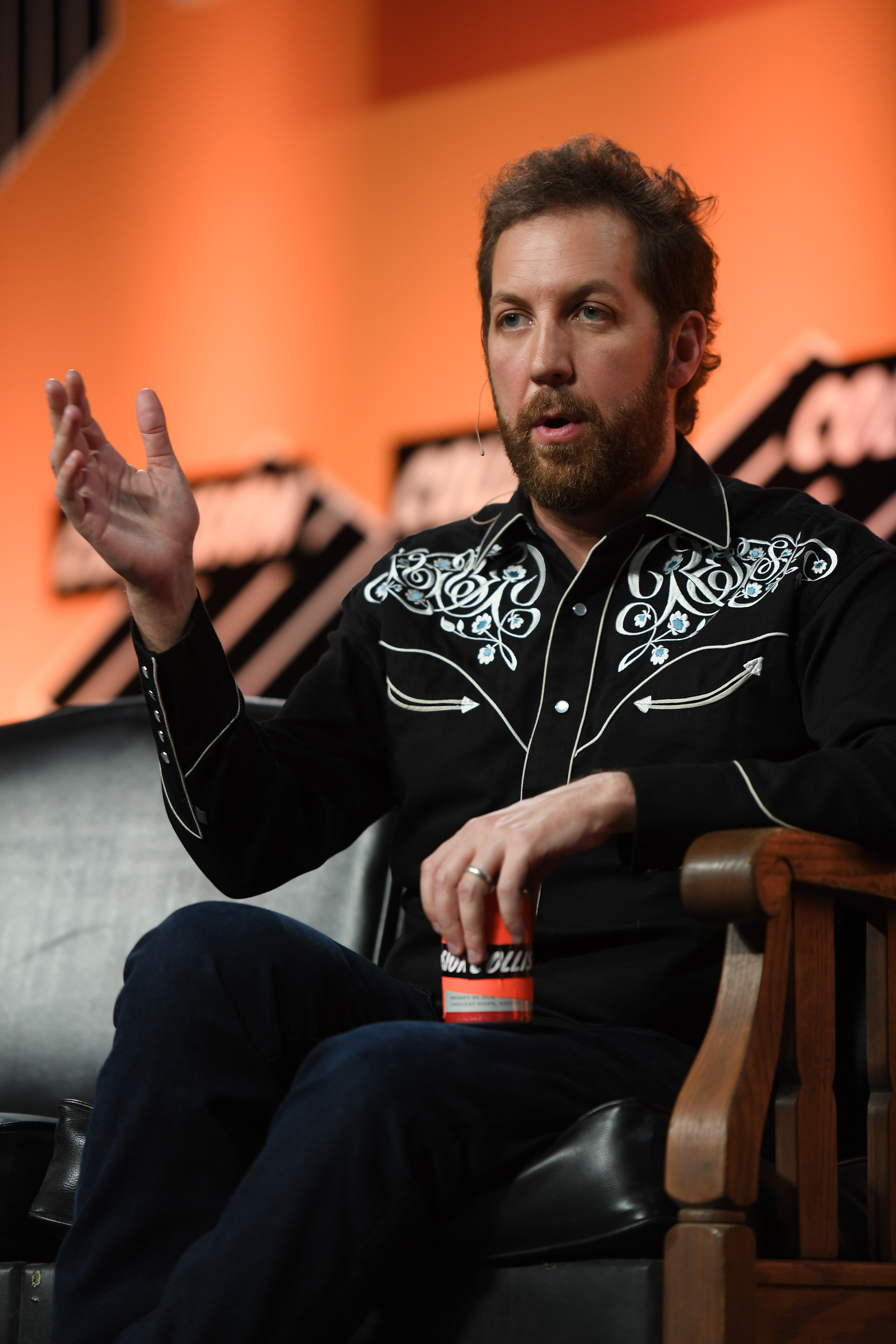 2 May 2017; Chris Sacca, Founder & Chairman, Lowercase Capital, on the Centre Stage at Collision 2017 in New Orleans, Louisiana. Photo by Stephen McCarthy / Collision / Sportsfile